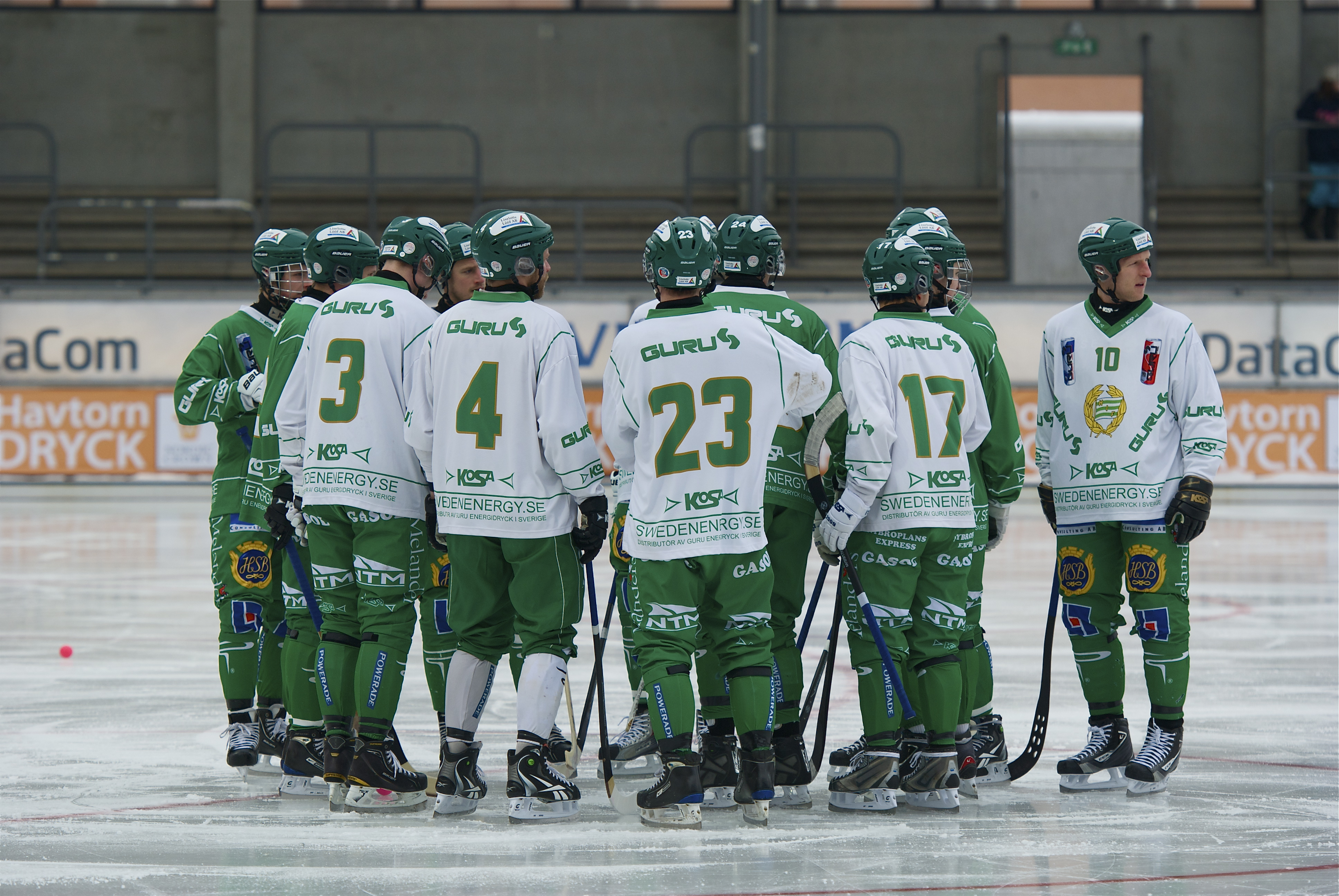 Bandy match between Hammarby and GAIS in Elitserien, Zinkendamms IP (Stockholm) 2012-02-11. Hammarby prepares for the match